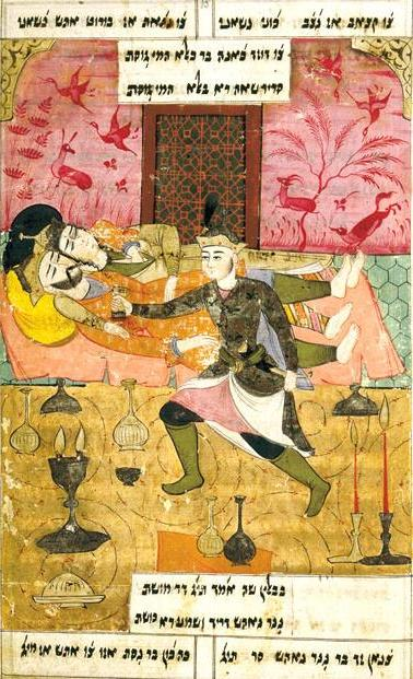 Manuscript is from late 17th-early 18th centuries, Iran.